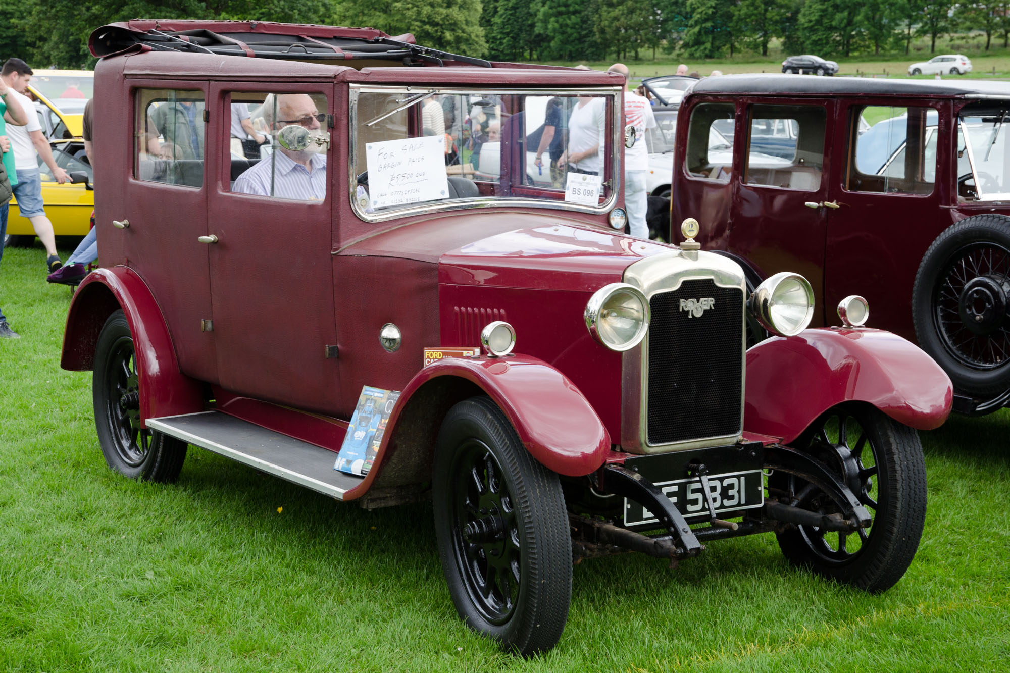 1928 Rover 10-25 fabric saloon with folding roof BF5331 (DVLA) first registered 14 July 1928, 1124 cc Burnley Classic Car Show at Towneley Park 29/06/2014